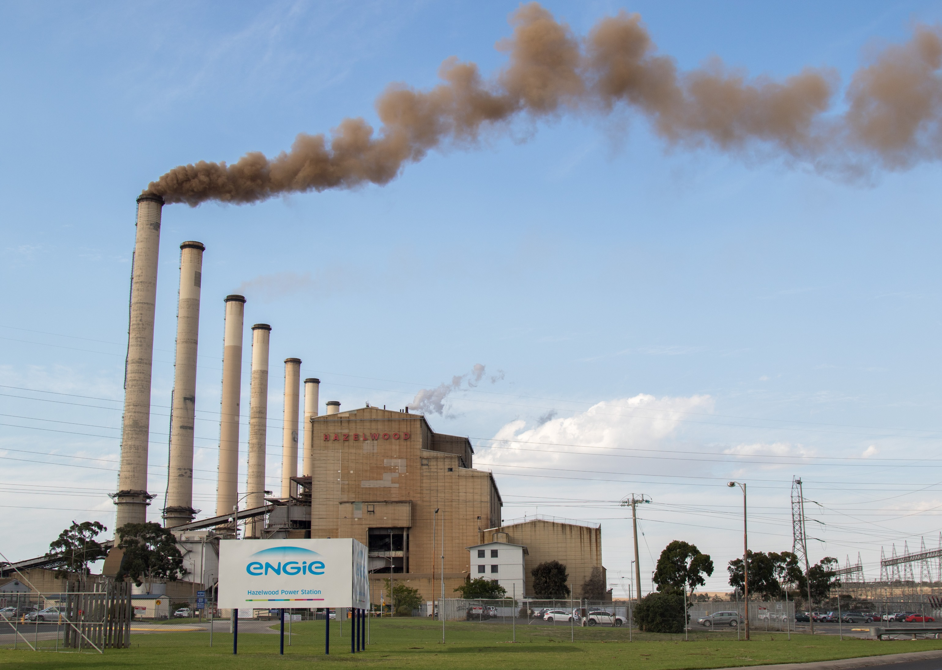 Hazelwood Power Station's final operational unit, Unit 1, being shut down for the last time before the station closes permanently. The thick plume of smoke is caused by a combination of the electrostatic precipitators switching off automatically during the shut down to eliminate the risk of them igniting, and what's left of the auxiliary fuel (briquettes) stored on site being fed into the boiler to empty their stores. HWPS substation on the right.